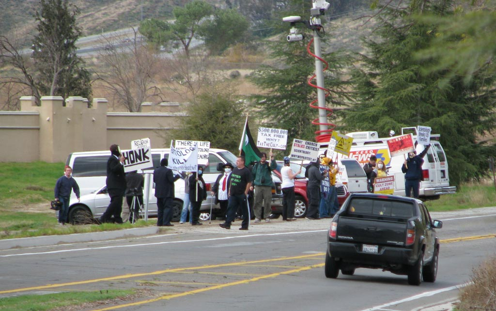 Gilman Hot Springs Road near Hemet, CA - The largest group ever to protest at Scientology Gold Base begins to gather along with KESQ TV Palm Springs